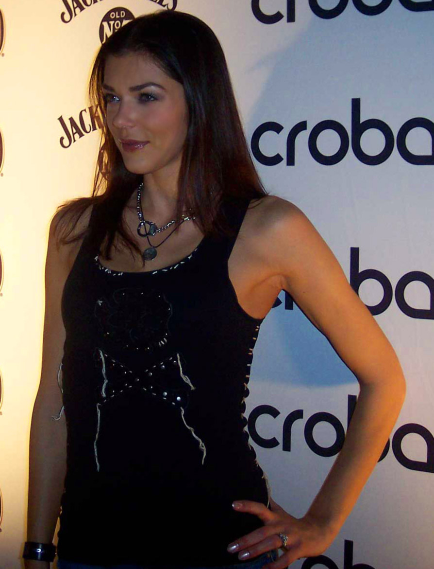 Adrianne Curry at Crobar Nightclub Chicago